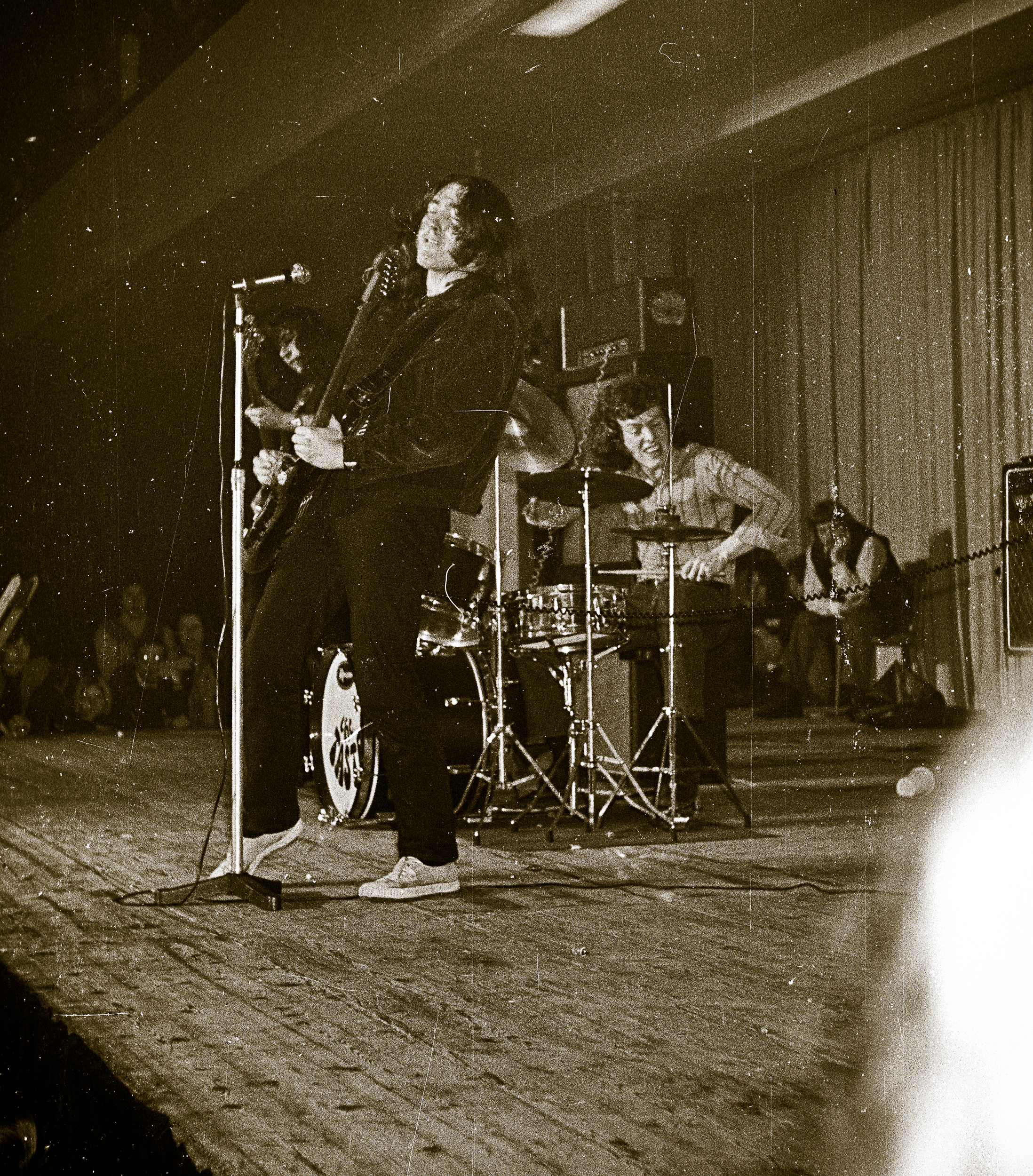 The Taste, January 12, 1970 Niedersachsenhalle, Hannover, Germany (supp. John Mayall), featuring Rory Gallagher on guitar and vocals, drummer John Wilson, and bassist Richard McCracken.